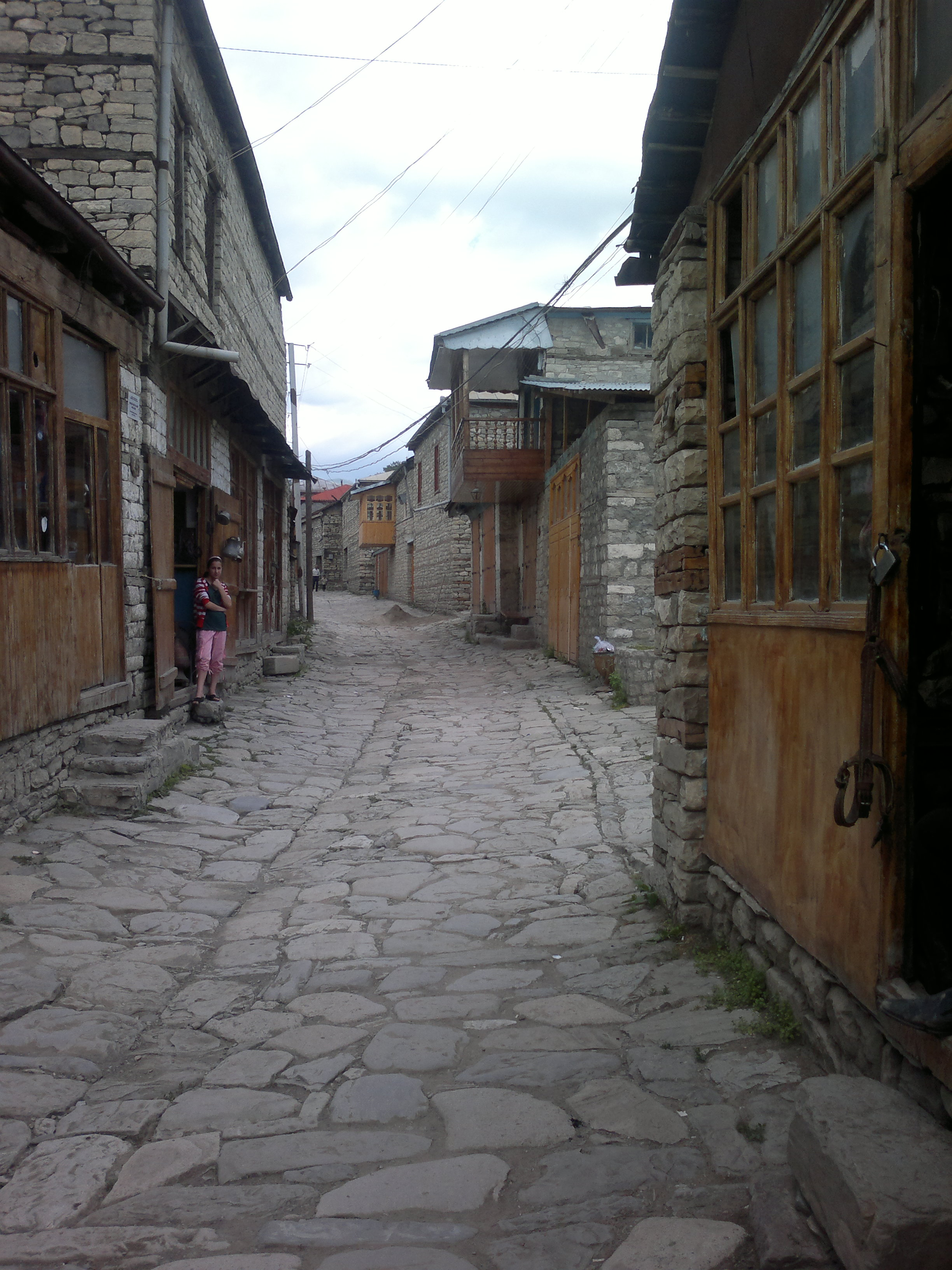 Street in Lahij. Azerbaijan